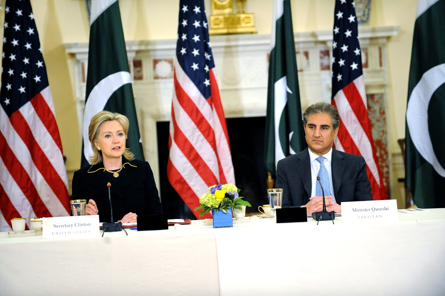 U.S. Secretary of State Hillary Rodham Clinton and Pakistani Foreign Minister Makhdoom Shah Mahmood Qureshi listen during the U.S. Pakistan Strategic Dialogue meeting at the U.S. Department of State in Washington, D.C., March 24, 2010. [State Department Photo/Public Domain]